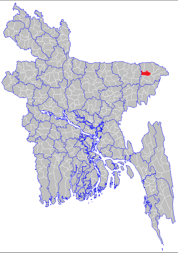 Location of Sylhet Sadar in Bangladesh